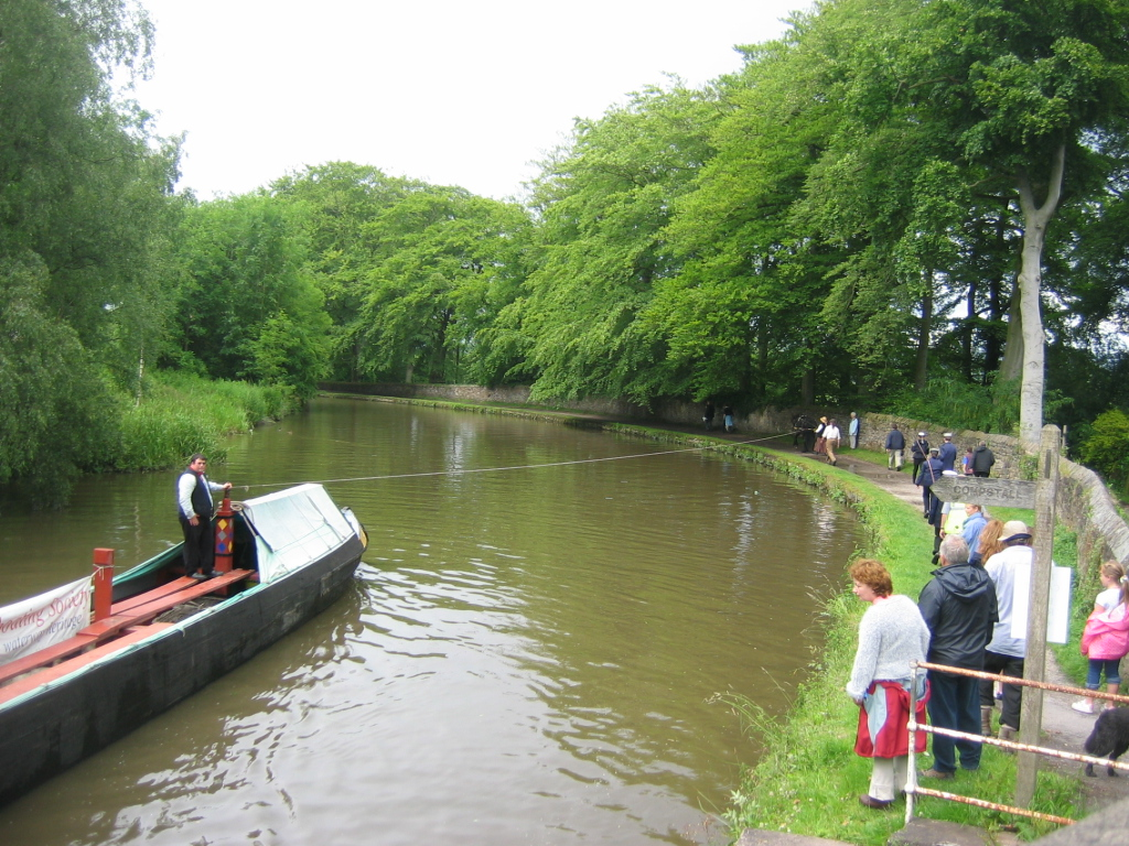 Horseboat Maria with towline, Peak Forest Canal, England